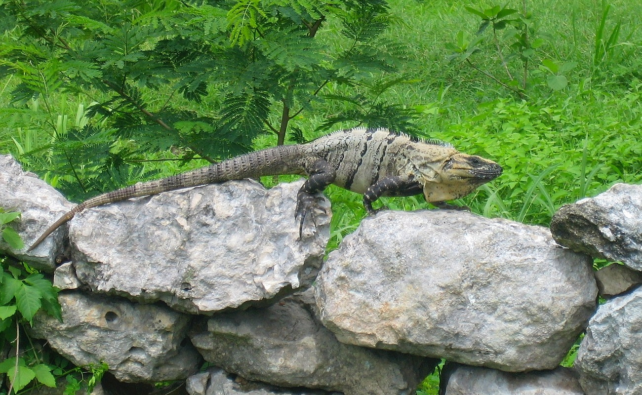 Iguana (Ctenosaura sp) on roadside stone fence near Maya city Dzibilchaltún (Mexico)